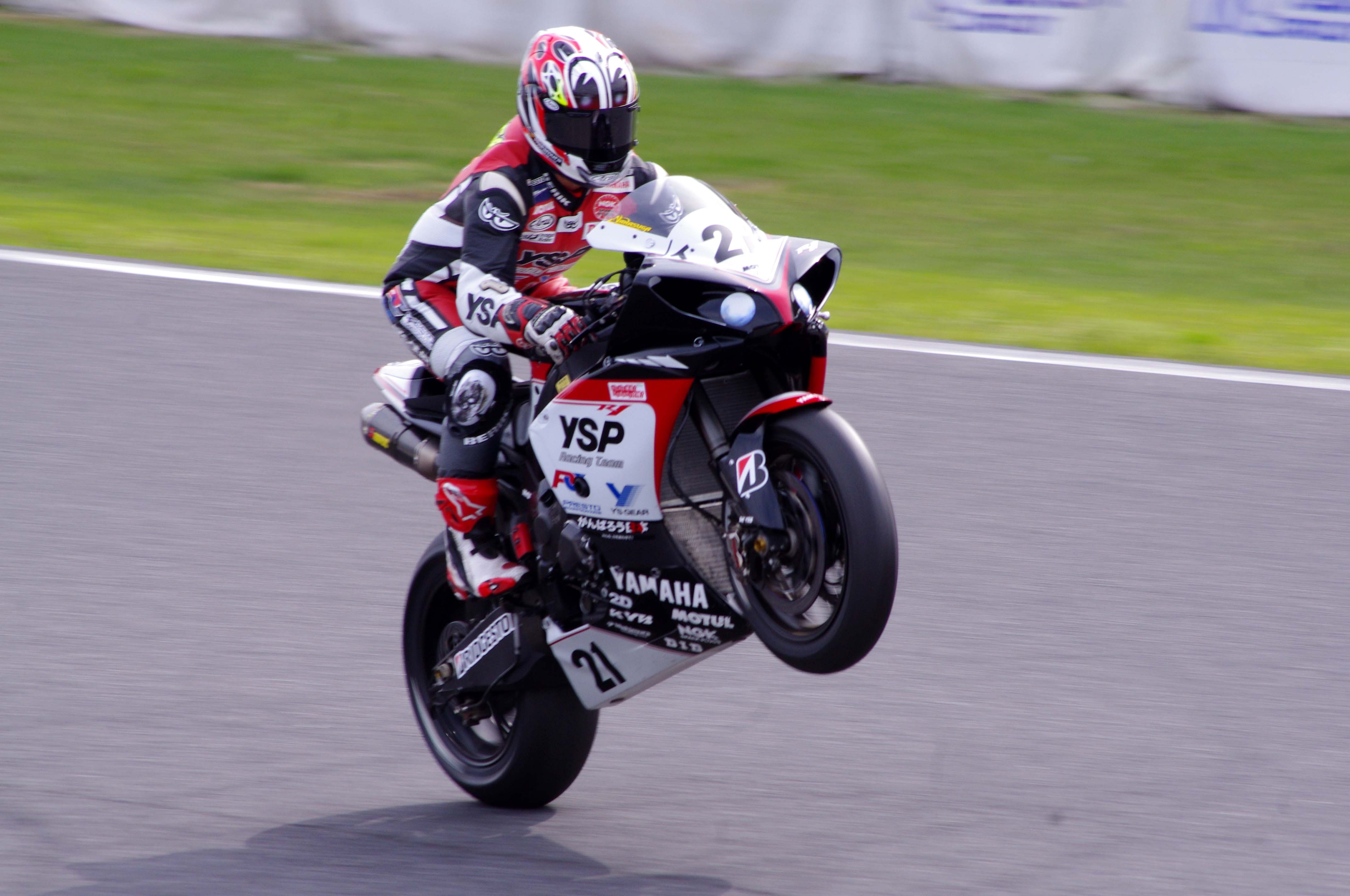 Japanese motorcycle racer Katsuyuki Nakasuga performing a wheelie on a Yamaha YZF-R1. Presumably All Japan Road Race Championship - JSB1000 class.